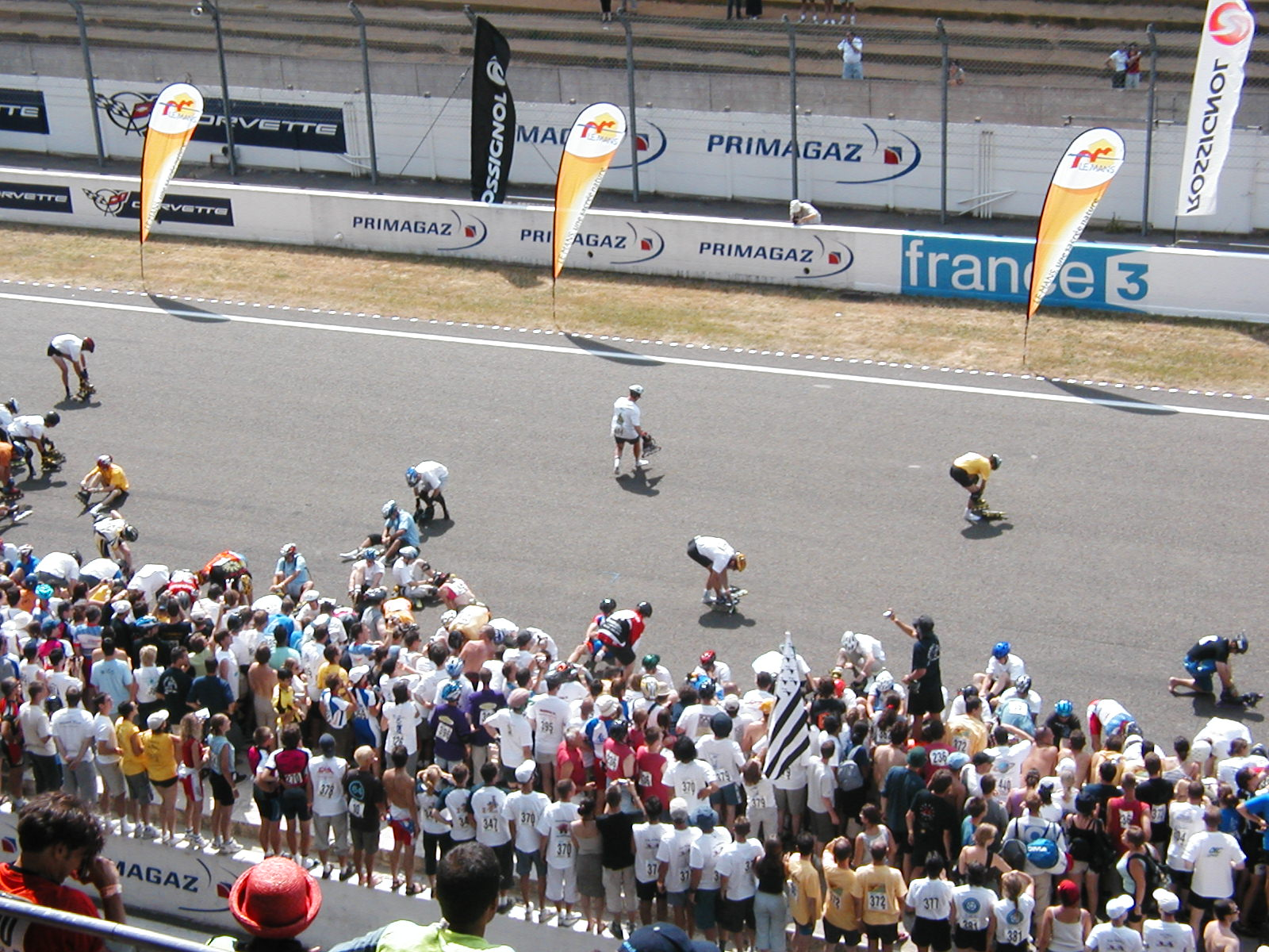 Competitors put their rollers right after the race start